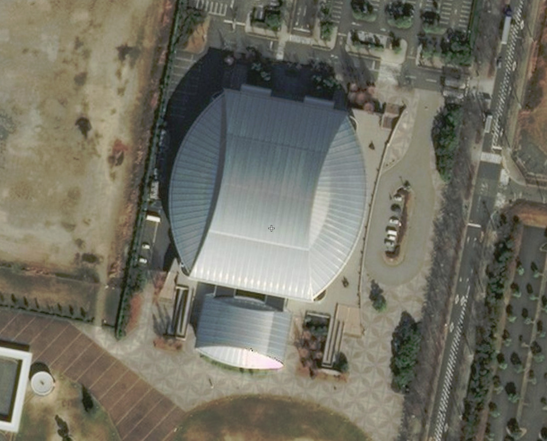 Okini Arena